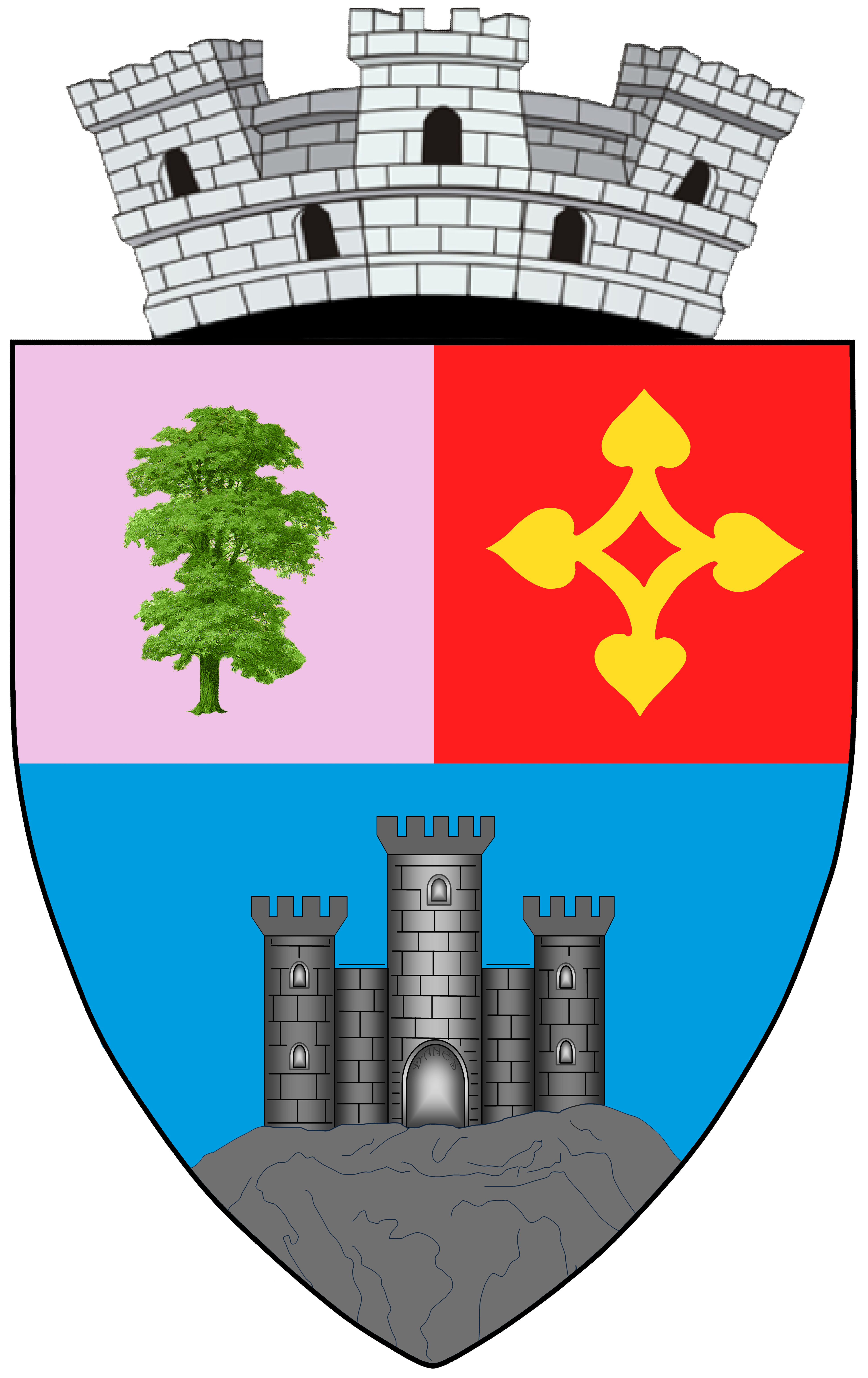 Coat of arms of Tălmaciu, Romania